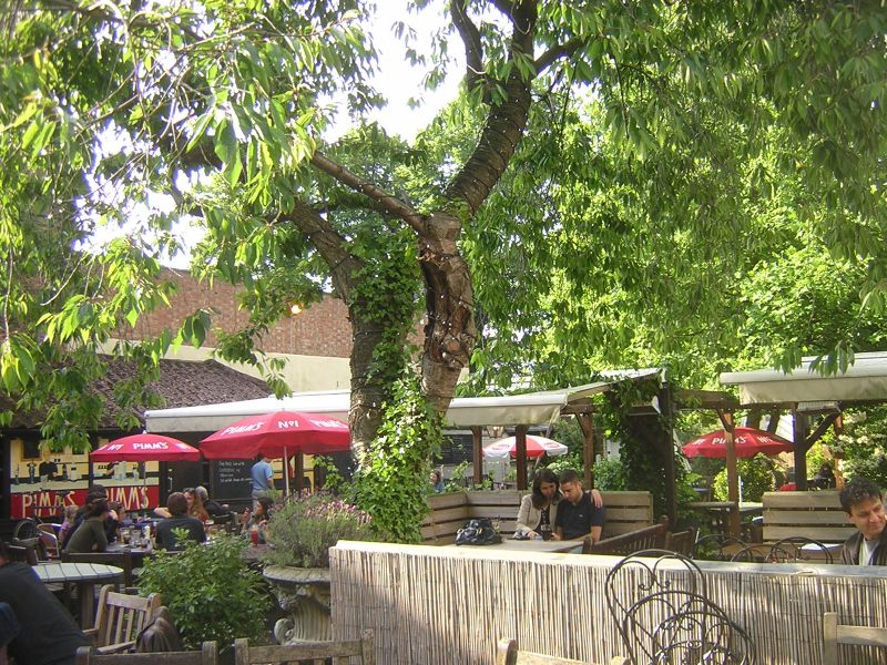 Beer garden at the Spaniards Inn pub.